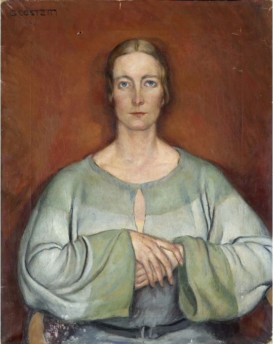 Norwegian-italo ceramist and writer Mary/Mai Sewell Costetti (1892–1975) painted by her husband, the italian philosopher and painter Giovanni Costetti (1874–1949)